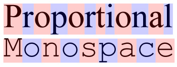 A comparison of proportional vs. monospace typography. Made by selecting glyphs in Adobe Photoshop and setting colored boxes to the selection widths.